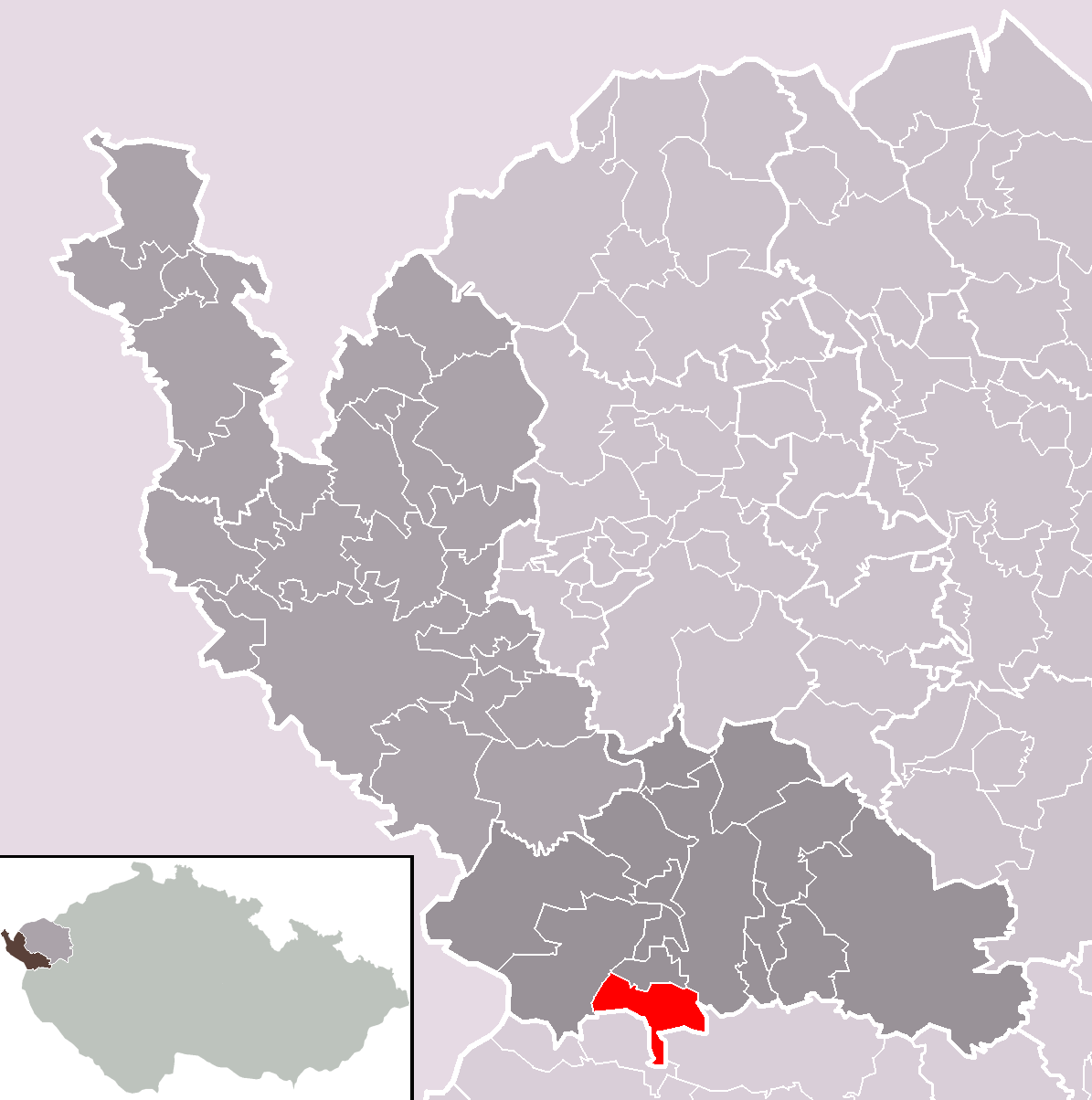 Location of Trstěnice municipality within Cheb District and administrative area of Mariánské Lázně as a Municipality with Extended Competence.